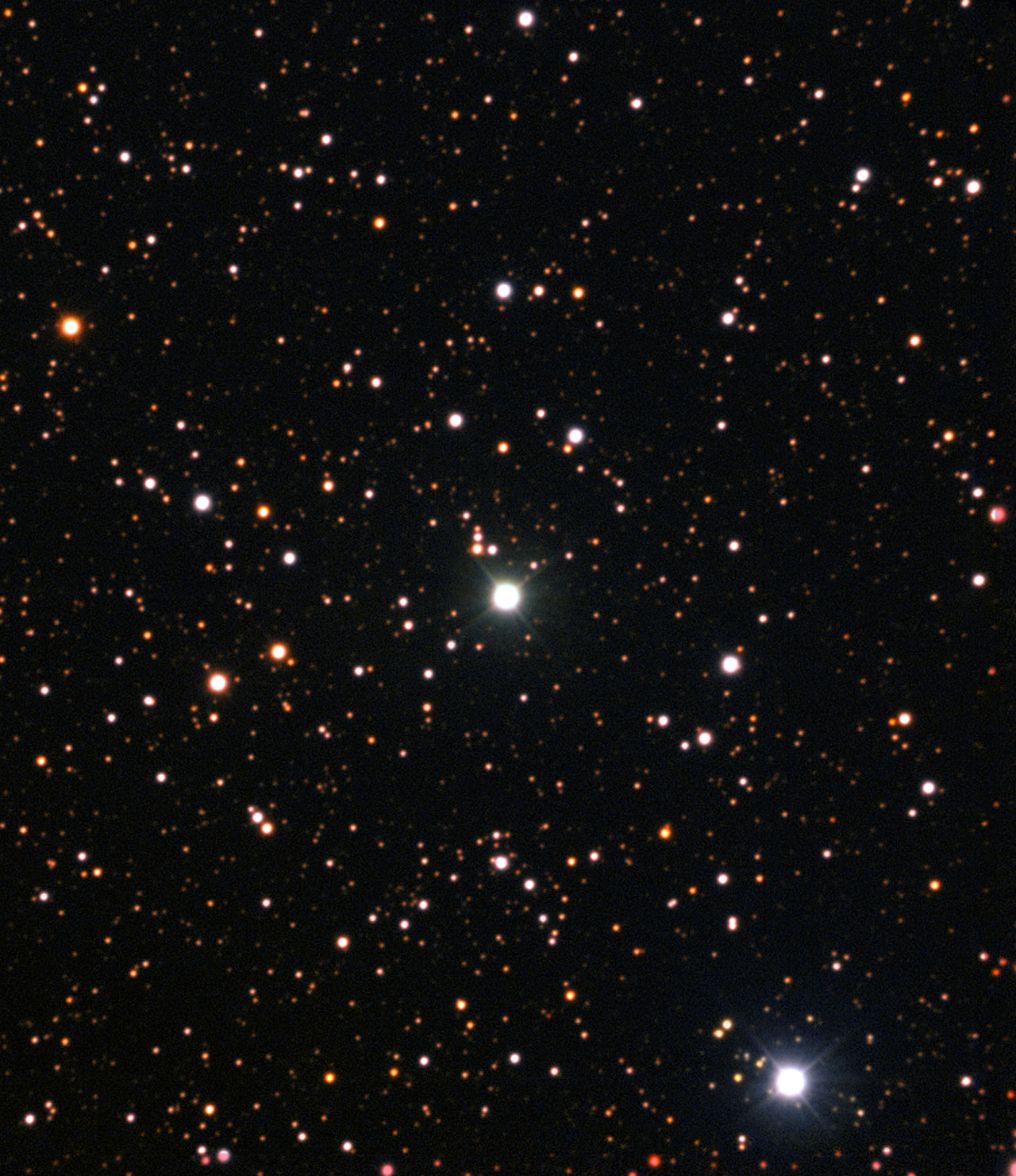 This image from the New Technology Telescope at ESO’s La Silla Observatory shows Nova Centauri 2013 in July 2015 as the brightest star in the centre of the picture. This was more than eighteen months after the initial explosive outburst. This nova was the first in which evidence of lithium has been found.